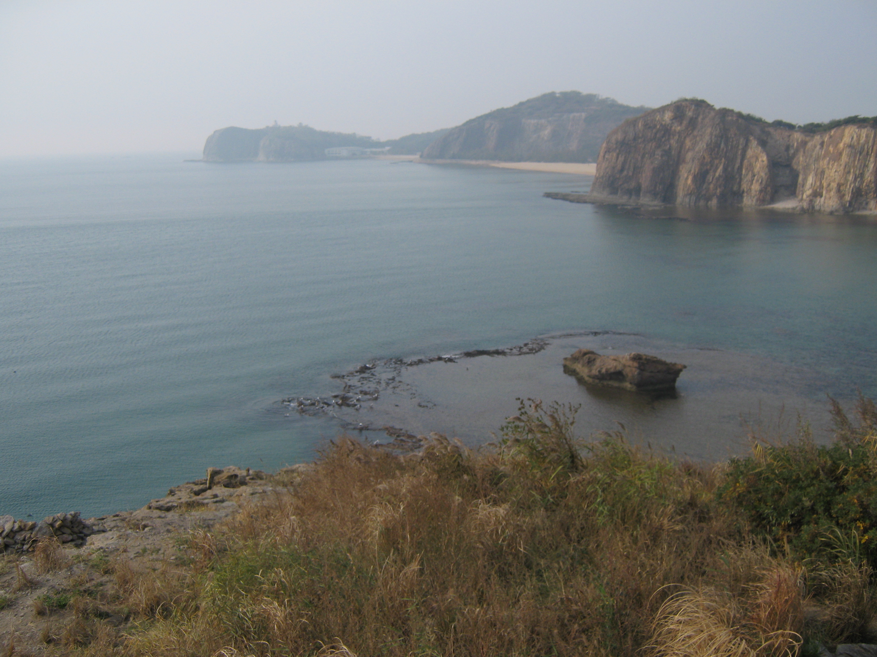 The coast near the Ma Jon Hotel